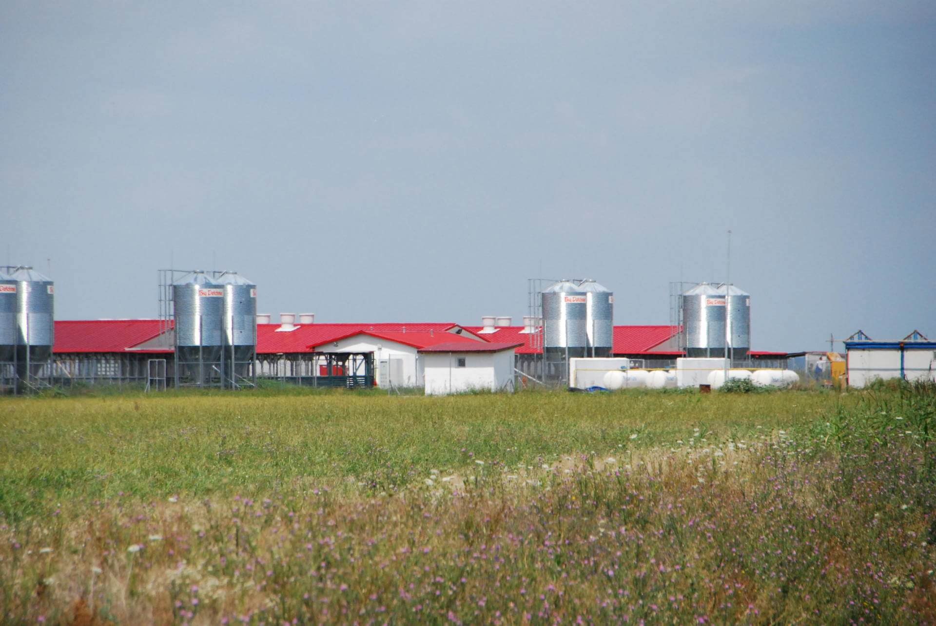 Smithfield farms in Romania